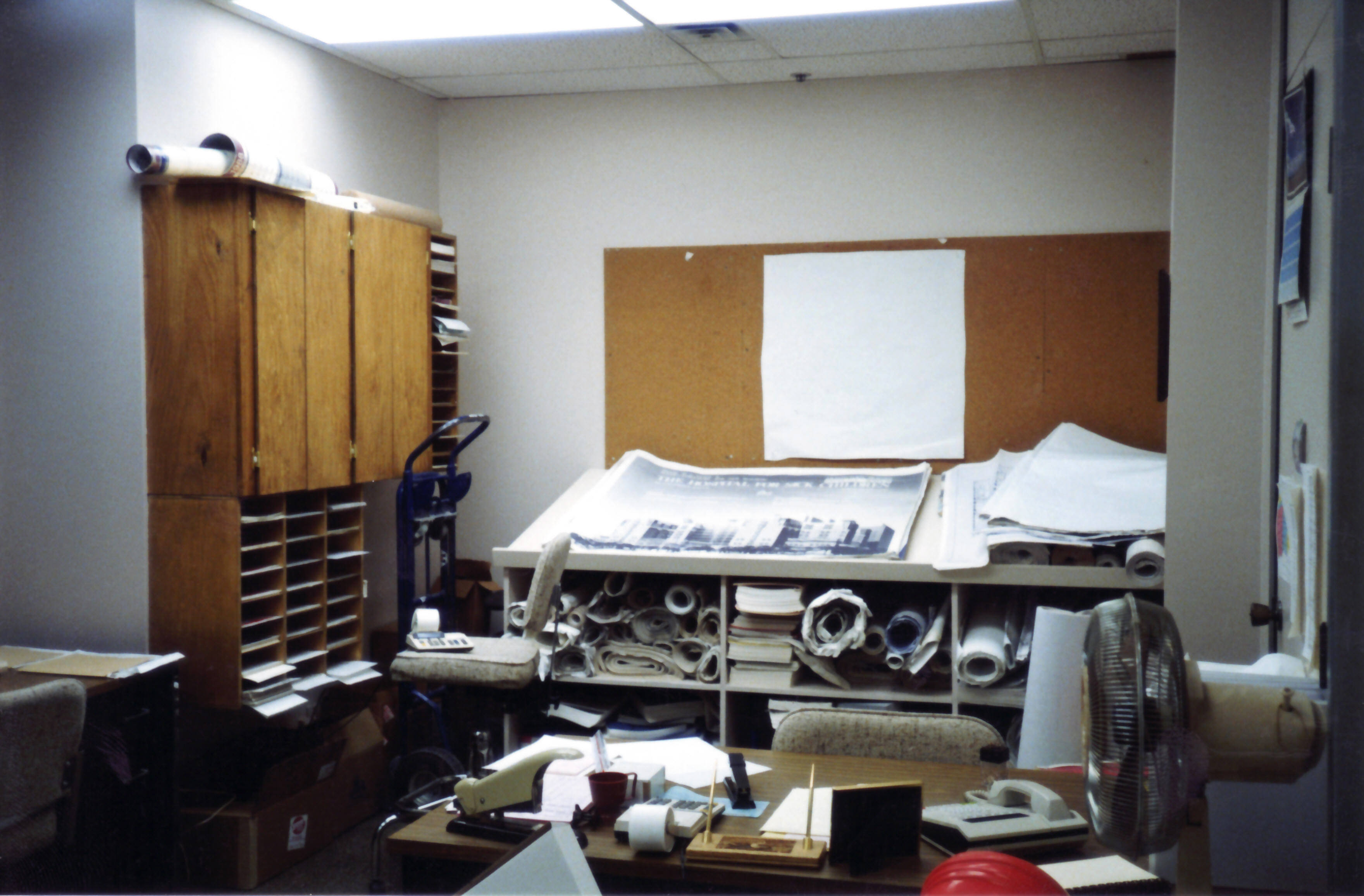 Analogue firestop estimating office, 1980's, Mississauga, Ontario, Canada, before widespread use of AutoCAD. Contractors did take-offs and estimates on the basis of printed drawings.